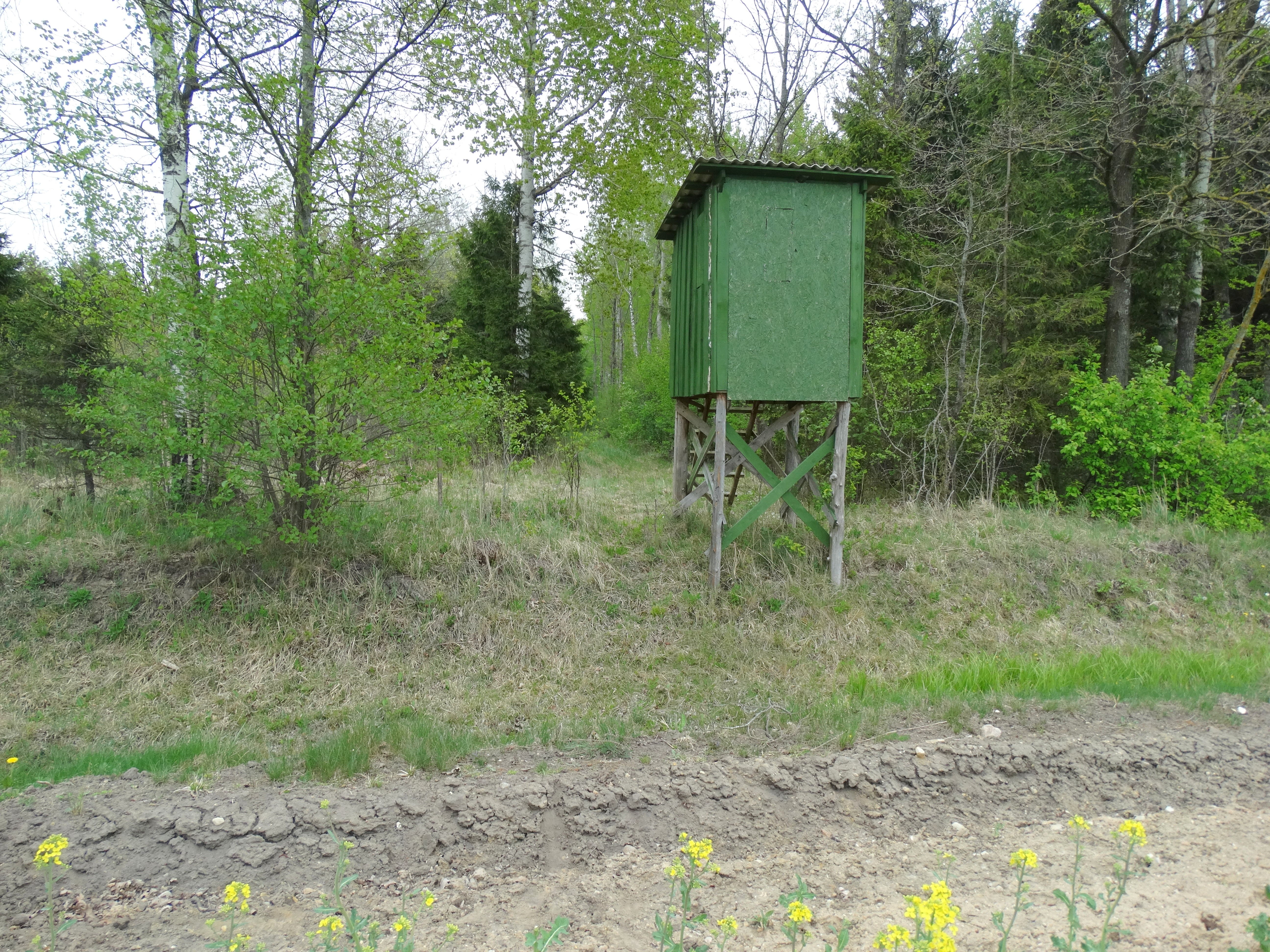 Šilai, forest shooting stand, Pakruojis District, Lithuania